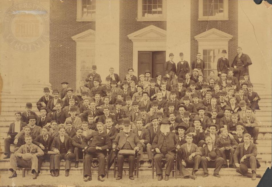 Photograph of law students ca. 1890-1893 in front of the Rotunda. Front and center, seated left to right: John B. Minor, Jr.?, James H. Gilmore?, John B. Minor.